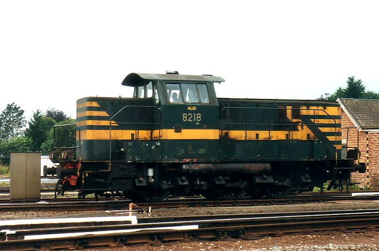 SNCB shunter 8218 at Gouvy station.